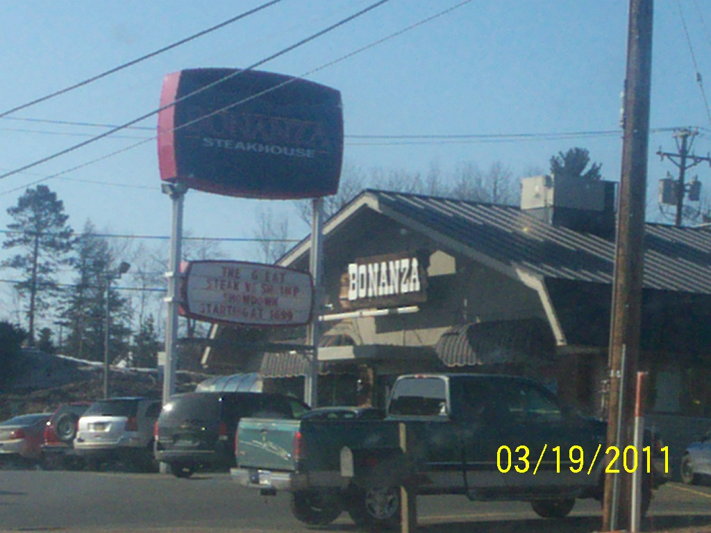 One of the few remaining Bonanza restaurants, on US-41 west of Marquette. I'm surprised that they kept the Bonanza but closed the Ponderosa; usually, it's the other way around.